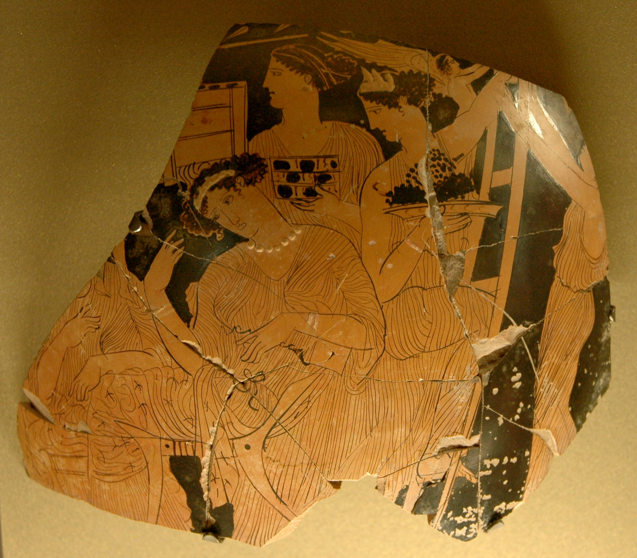 Women celebrating the Adonia, festival of Adonis. Fragment of an Attic red-figure lebes gamikos (wedding vase), ca. 430-420.